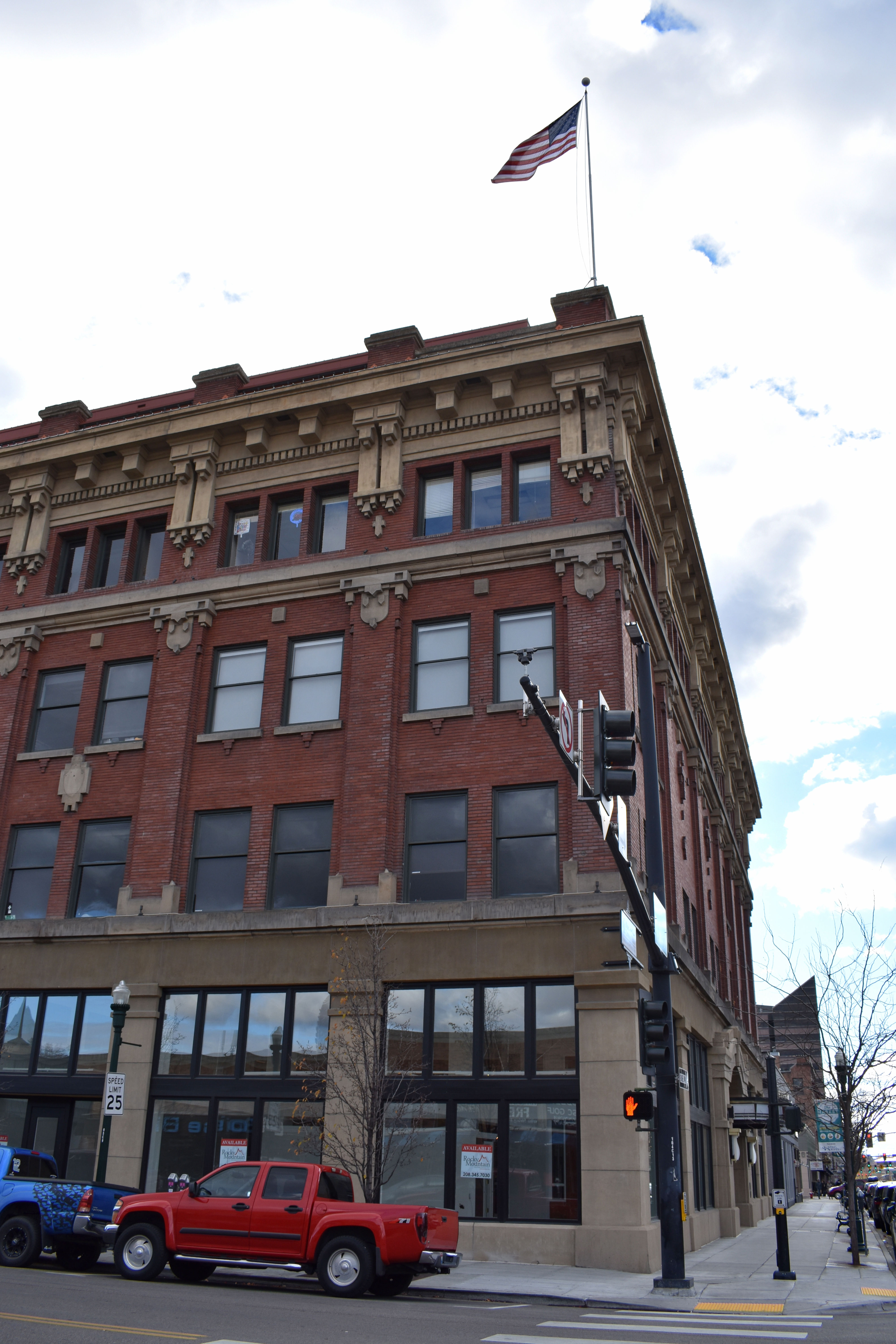 The Elks Temple (Boise, Idaho) was designed by Tourtellotte & Hummel and constructed in 1914. The building is listed on the National Register of Historic Places.